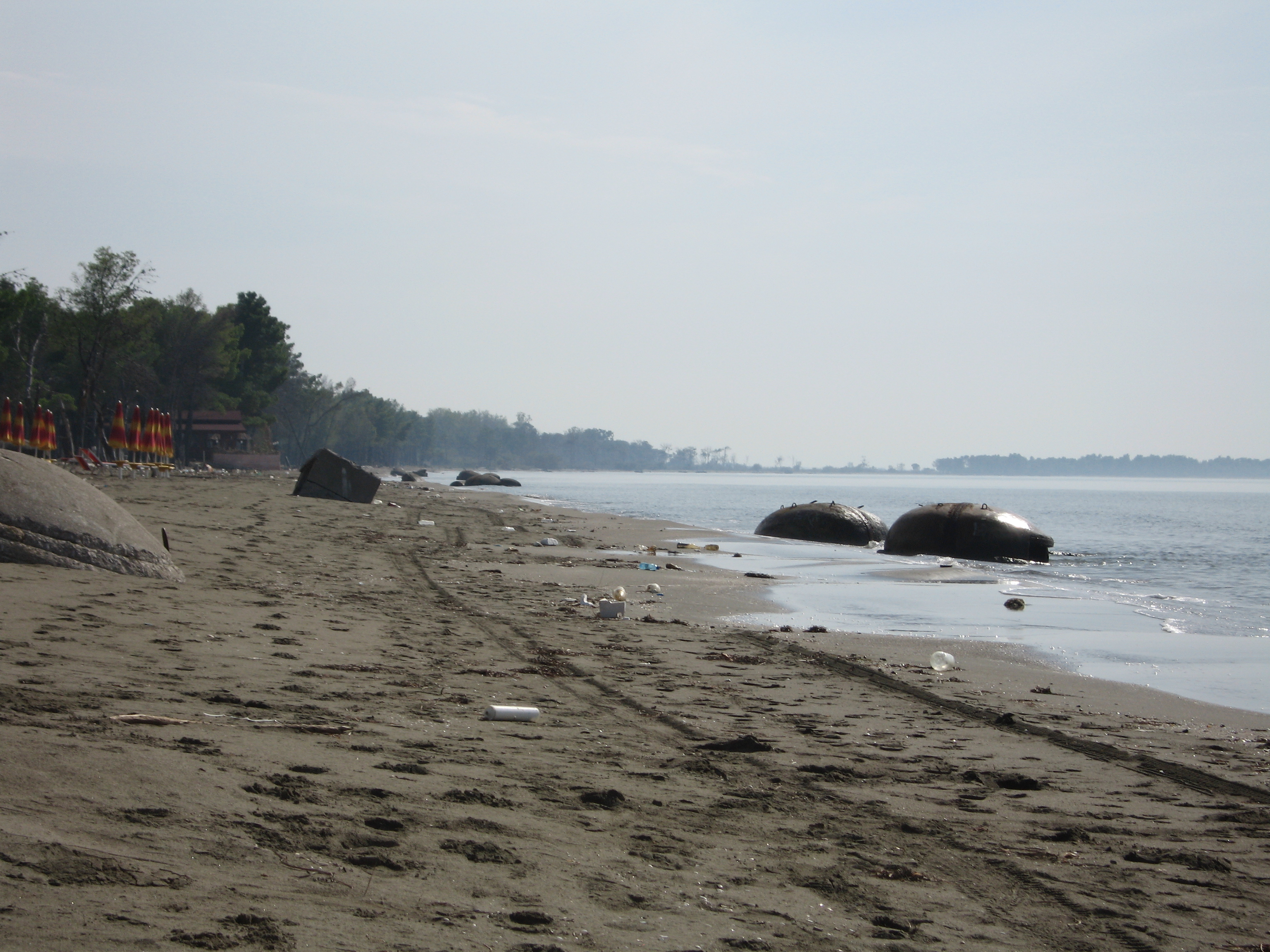 Bunkers at the seaside Shengjin Albania.